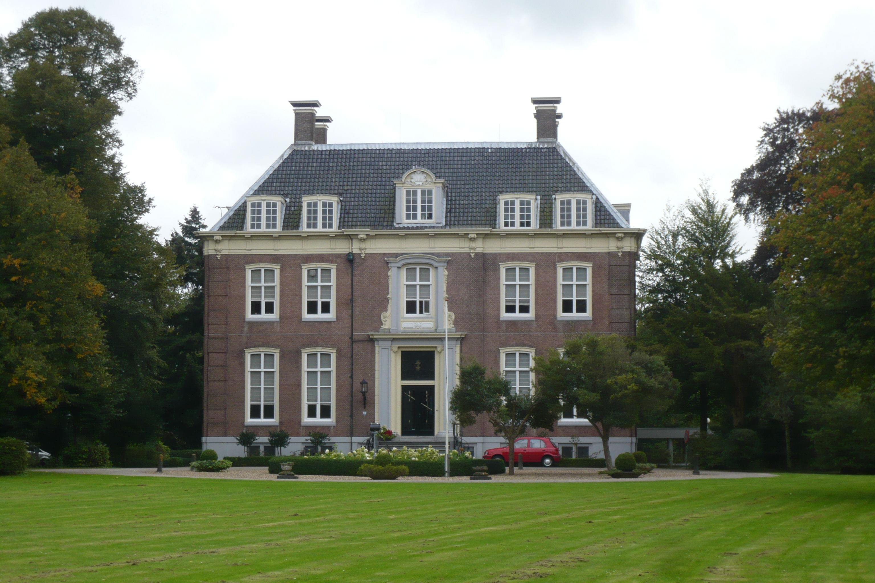 Villa Bosbeek, Heemstede, seen from the west where there used to be a driveway through what is today Groenendaal park, connecting it to the Herenweg. This is the former front facade, and what today is considered the front faces the Glipper dreef (which was formerly the shore of Haarlem lake, or Haarlemmermeer).